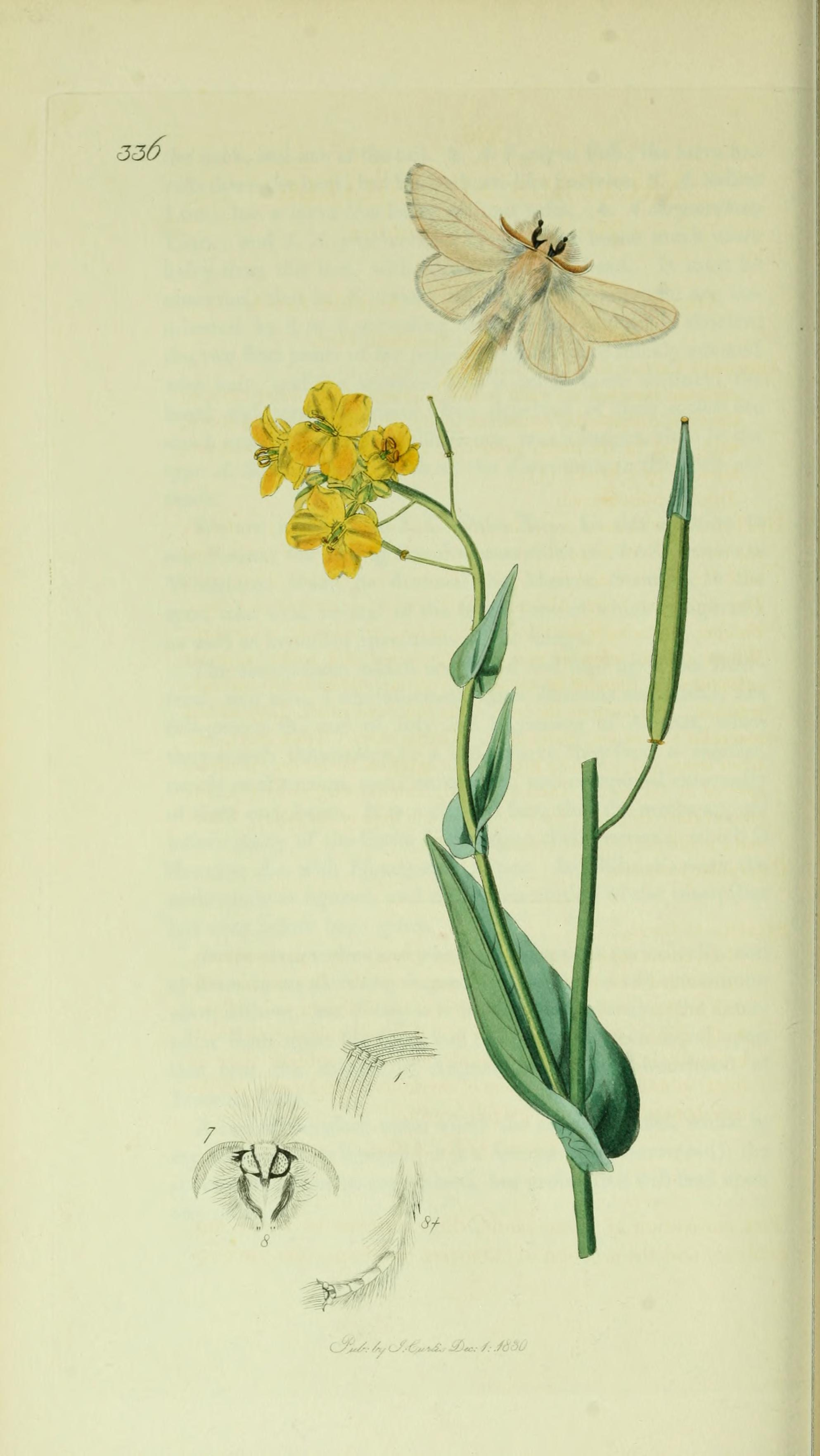 An illustration from British Entomology by John Curtis. Arcturus sparshalli or Trichiocercus sparshalli (Arctiidae: Long-tailed Bombyx) not British Isles.